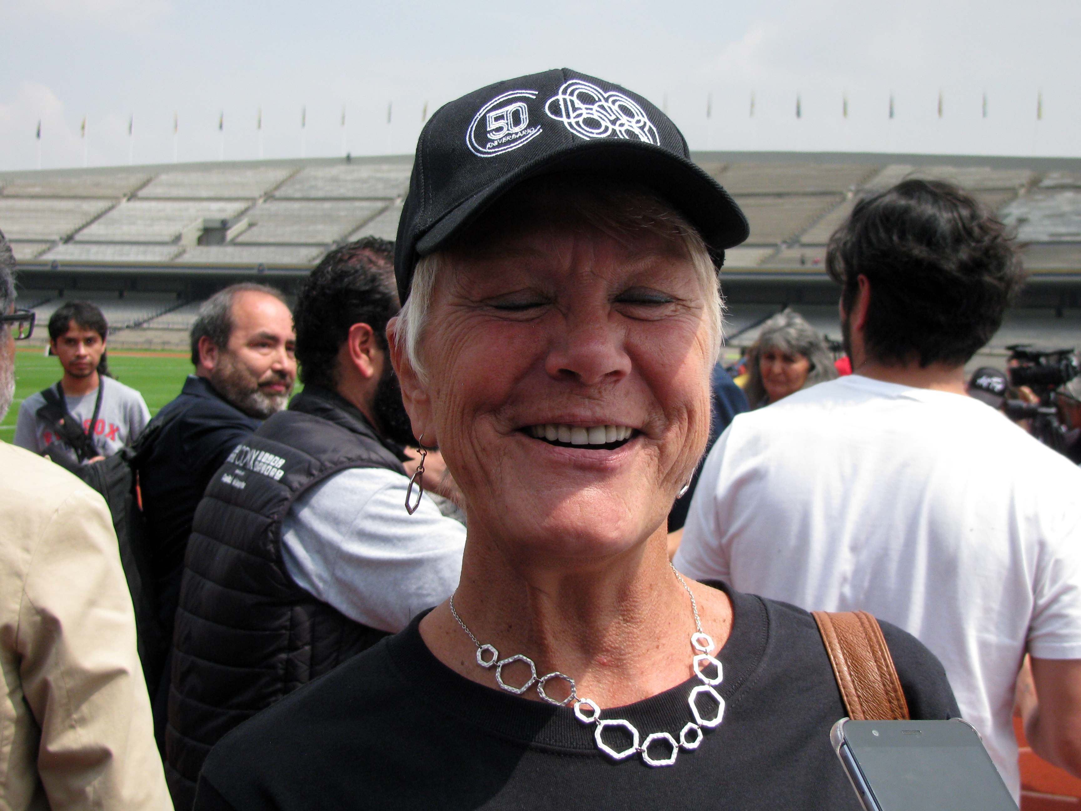 Event to commemorate the 50th anniversary of the 1968 Olympic Games in Mexico. University Olympic Stadium, Mexico City, Mexico.